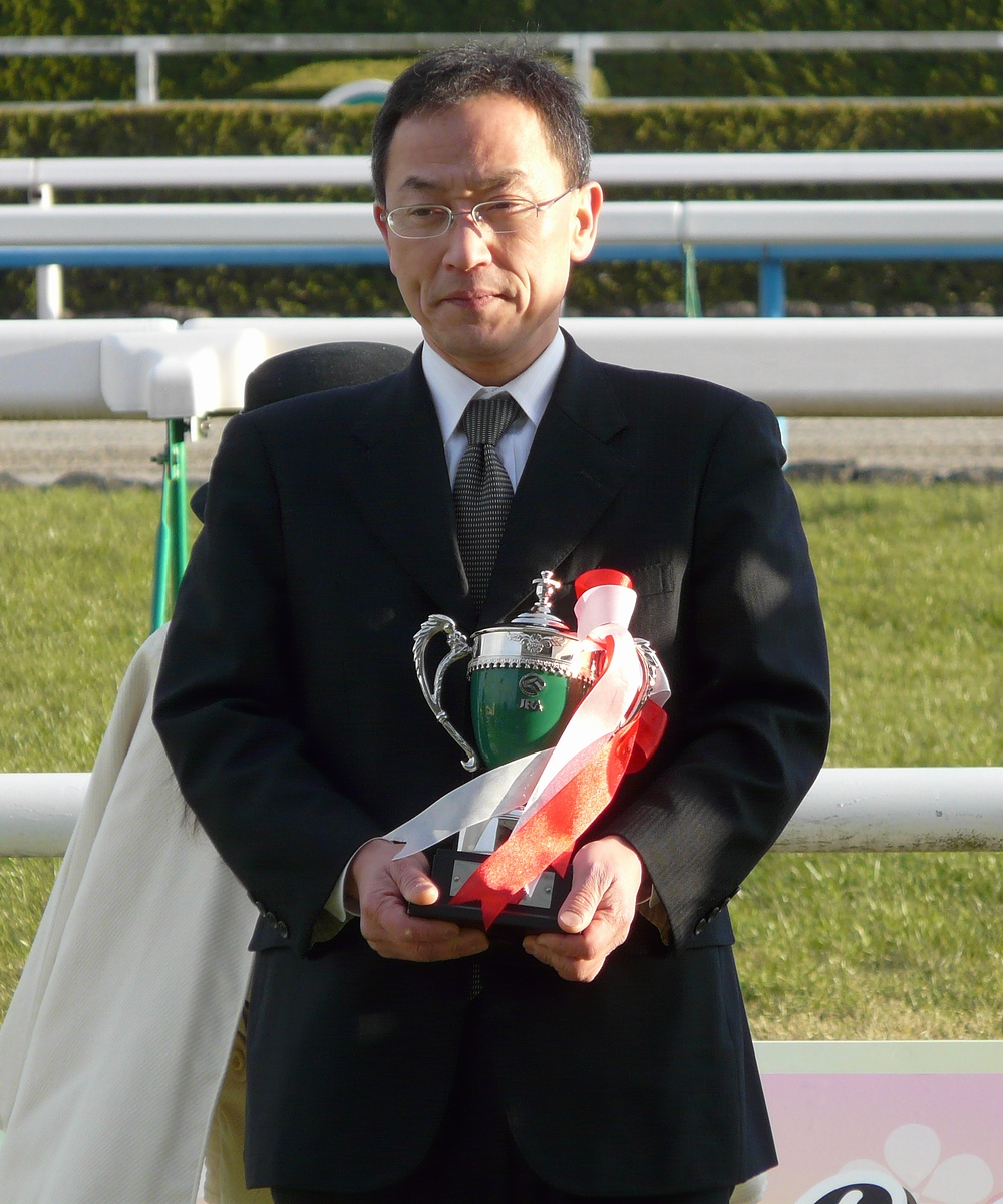 Katsuhiko-Sumii20110116